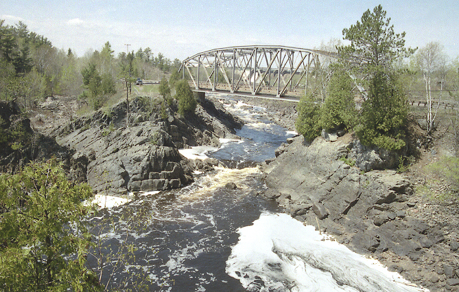 Photograph by Tim Kiser. The Saint Louis River at Thomson, Minnesota, en:17 May en:2003.